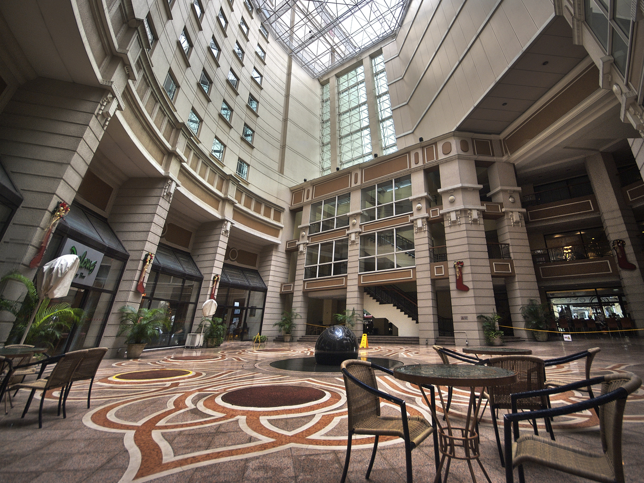 The courtyard of the Rendezvous Hotel Singapore, photographed in HDR.